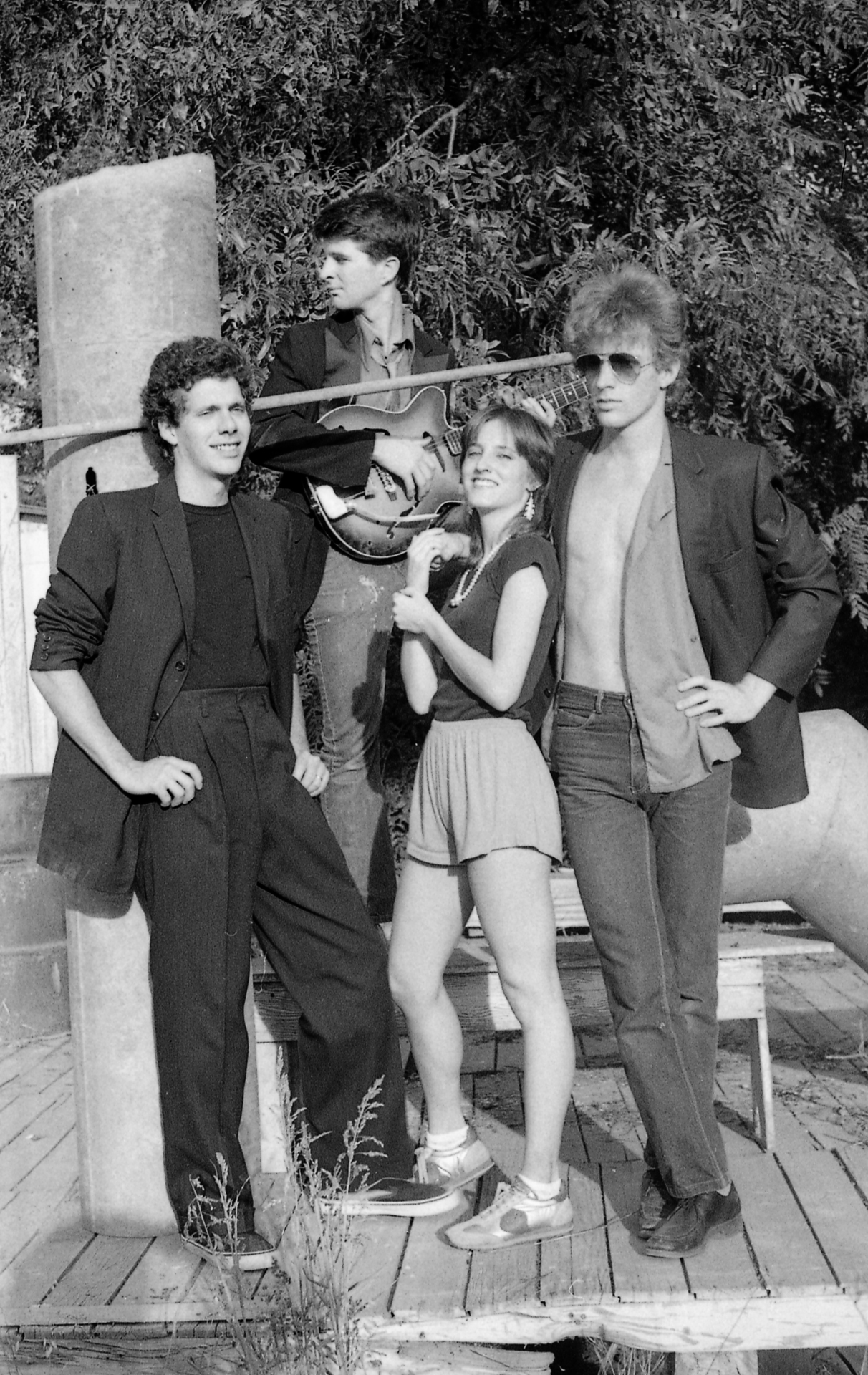 First Game Theory line-up, Davis, CA 1981 - recorded Blaze of Glory. Left to right: Michael Irwin, Fred Juhos, Nancy Becker, Scott Miller.